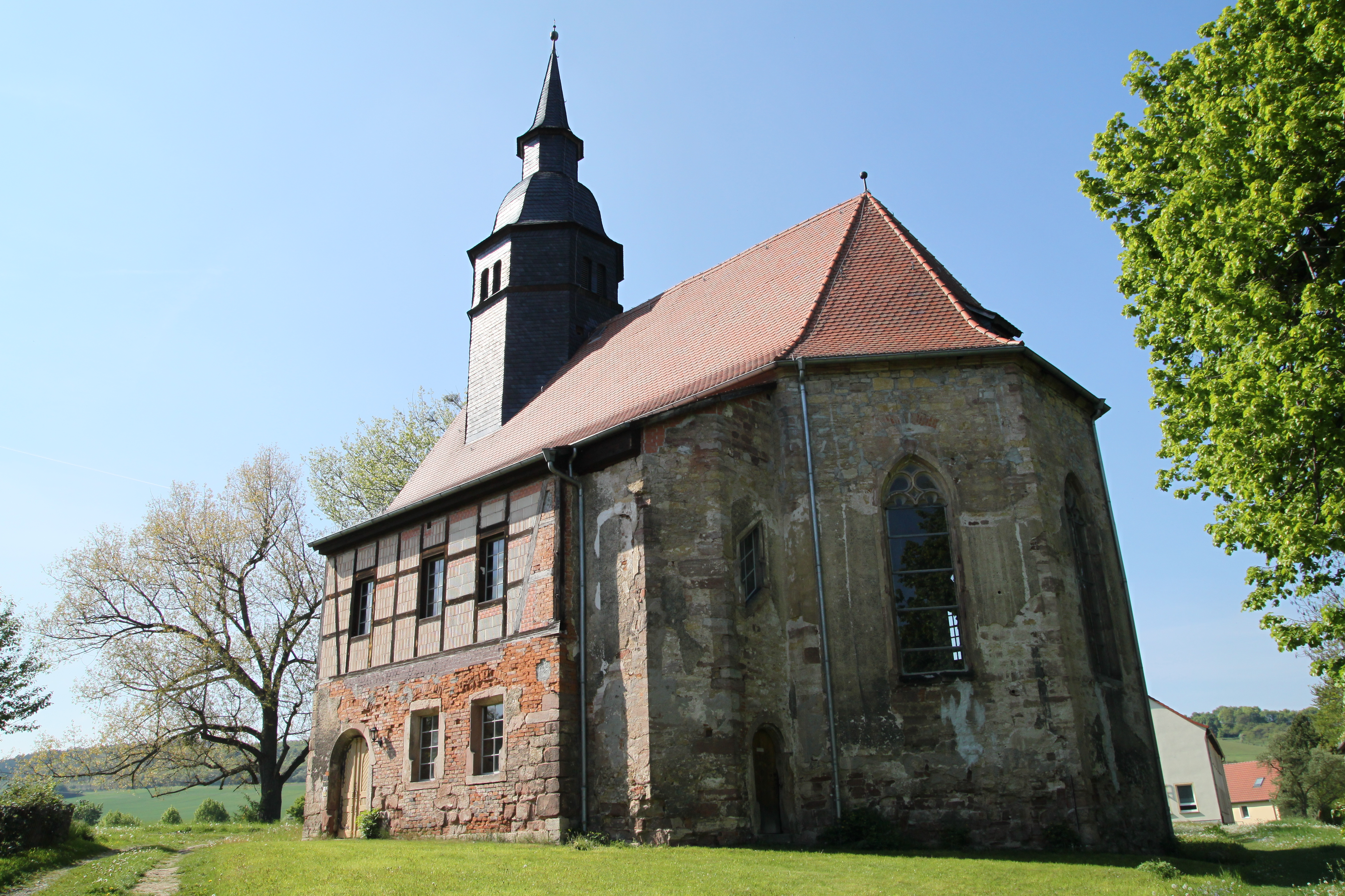 church of Schöngleina